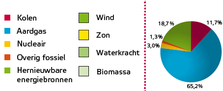 Bronsamenstelling Eneco 2009